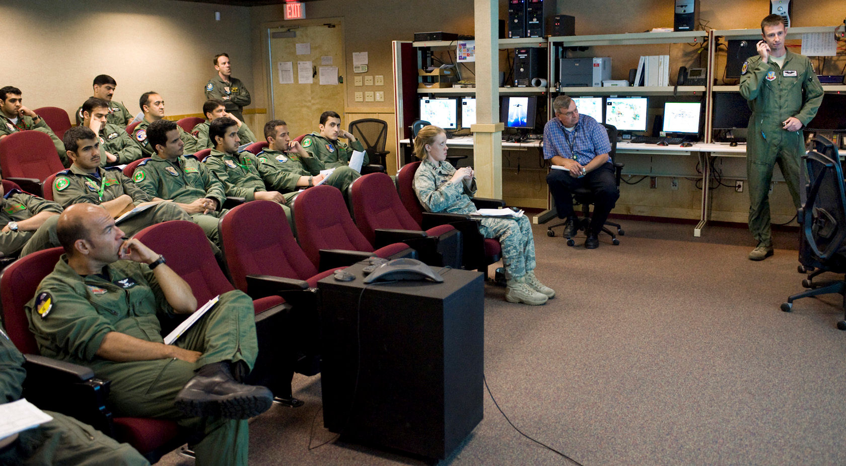 NELLIS AIR FORCE BASE, Nev.-- Capt. Andy Labrum, close air support instructor, 549th Combat Training Squadron, oversees a debrief session between U.S., Royal Saudi Arabia and Pakistan Air Force pilots and joint terminal attack controllers after a training mission during Green Flag West 10-9 exercise. The coalition aircraft launch from Nellis AFB and fly to the National Training Center in Fort Irwin, Calif. to train on close air support during Green Flag-West. The exercise provides a realistic air-land integration training environment for joint forces preparing to support worldwide combat operations. (U.S. Air Force Photo by Lawrence Crespo)